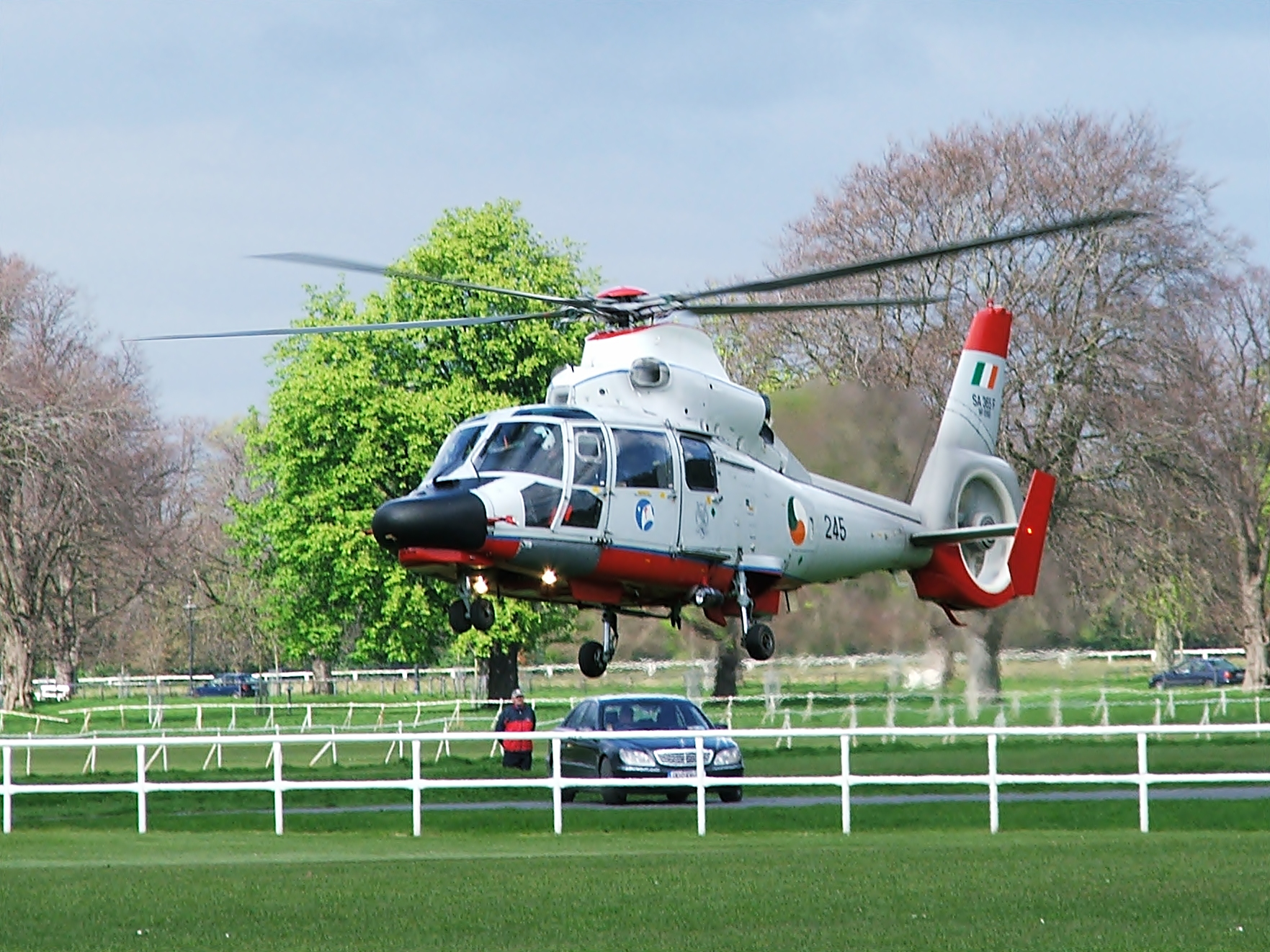 Irish Air Corps helicopter landing in Phoenix Park, Dublin, Ireland.